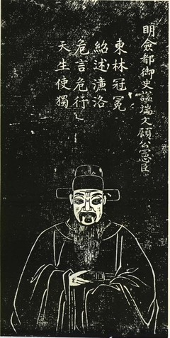 Gu Xiancheng (Chinese: 顧憲成; pinyin: Gù Xiànchéng; 1550–1612) was a Ming dynasty Chinese bureaucrat and educator who founded the Donglin movement.